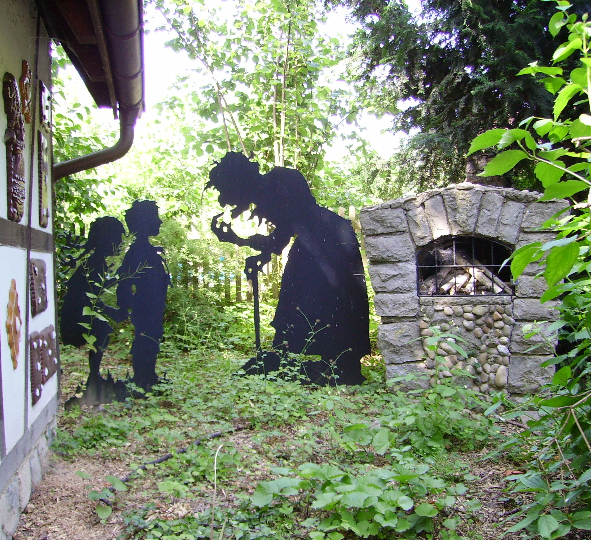 Metal statues of Hansel and Gretel in Märchengarten (fairy tale garden), in Ludwigsburg, Germany